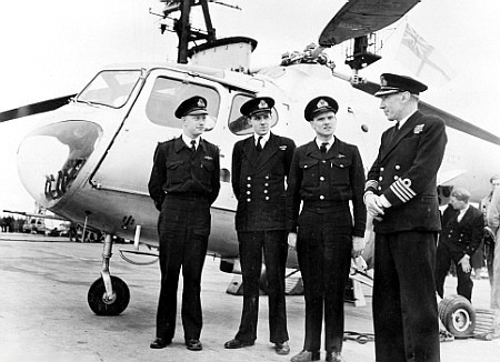 C.1954. Captain H. M. Burrell RAN (right) with aircrew on board the aircraft carrier HMAS Vengeance. Behind is a Bristol Sycamore helicopter. (Naval Historical Collection).